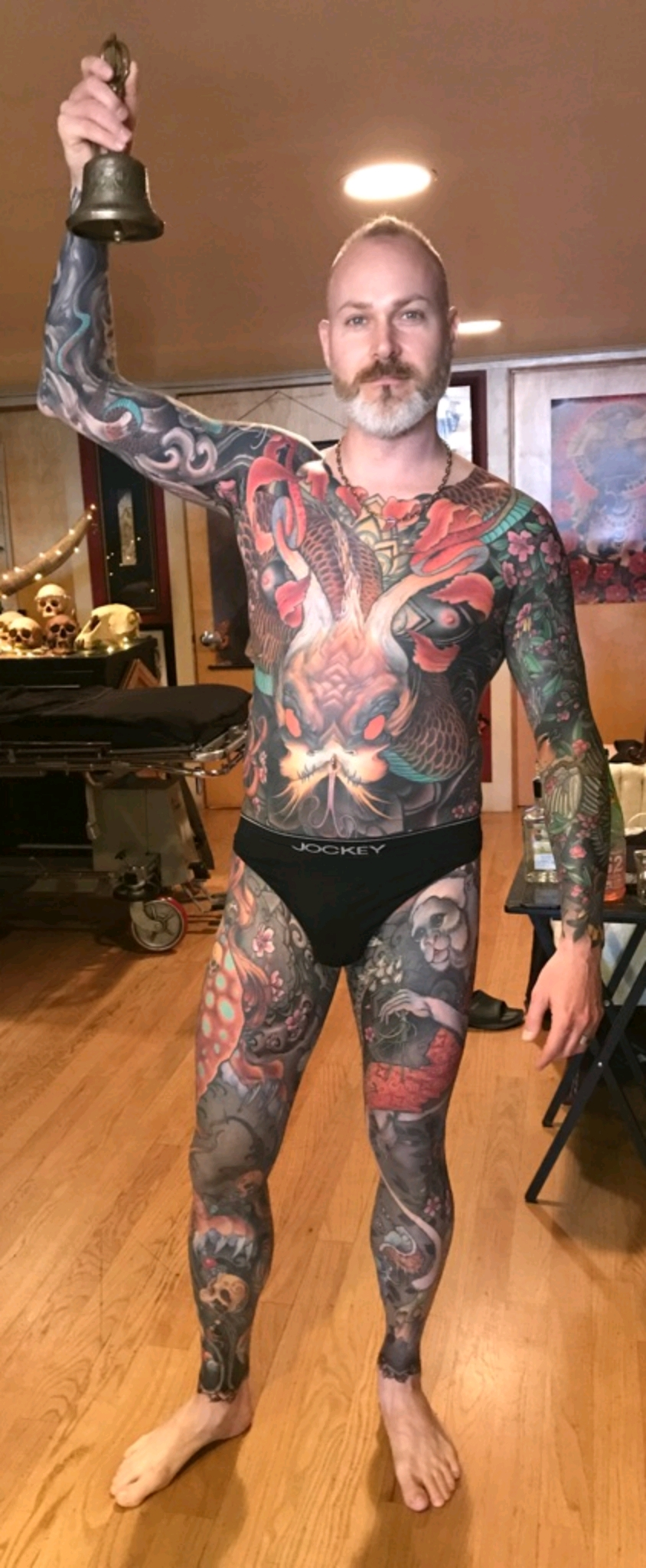 Body Suit Front By Jeff Gogue